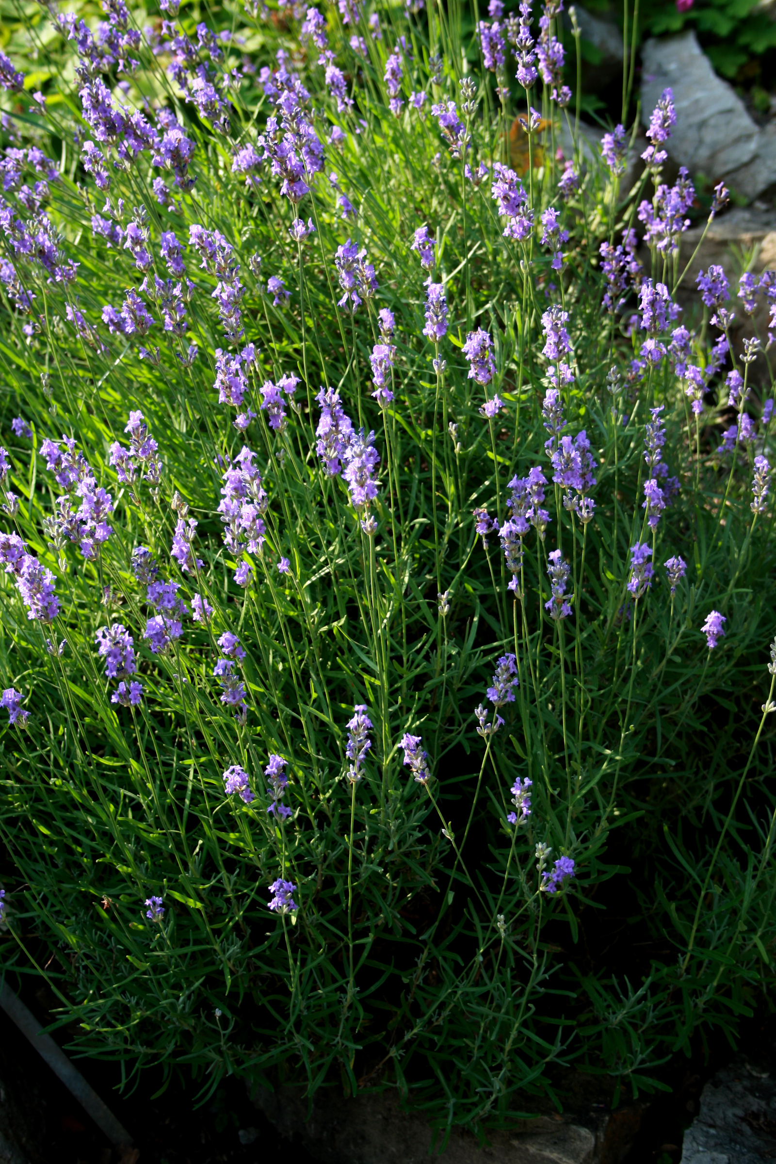 Lavandula angustifolia, Lavandula angustifolia from Botanical Garden of Charles University in Prague, Czech Republic